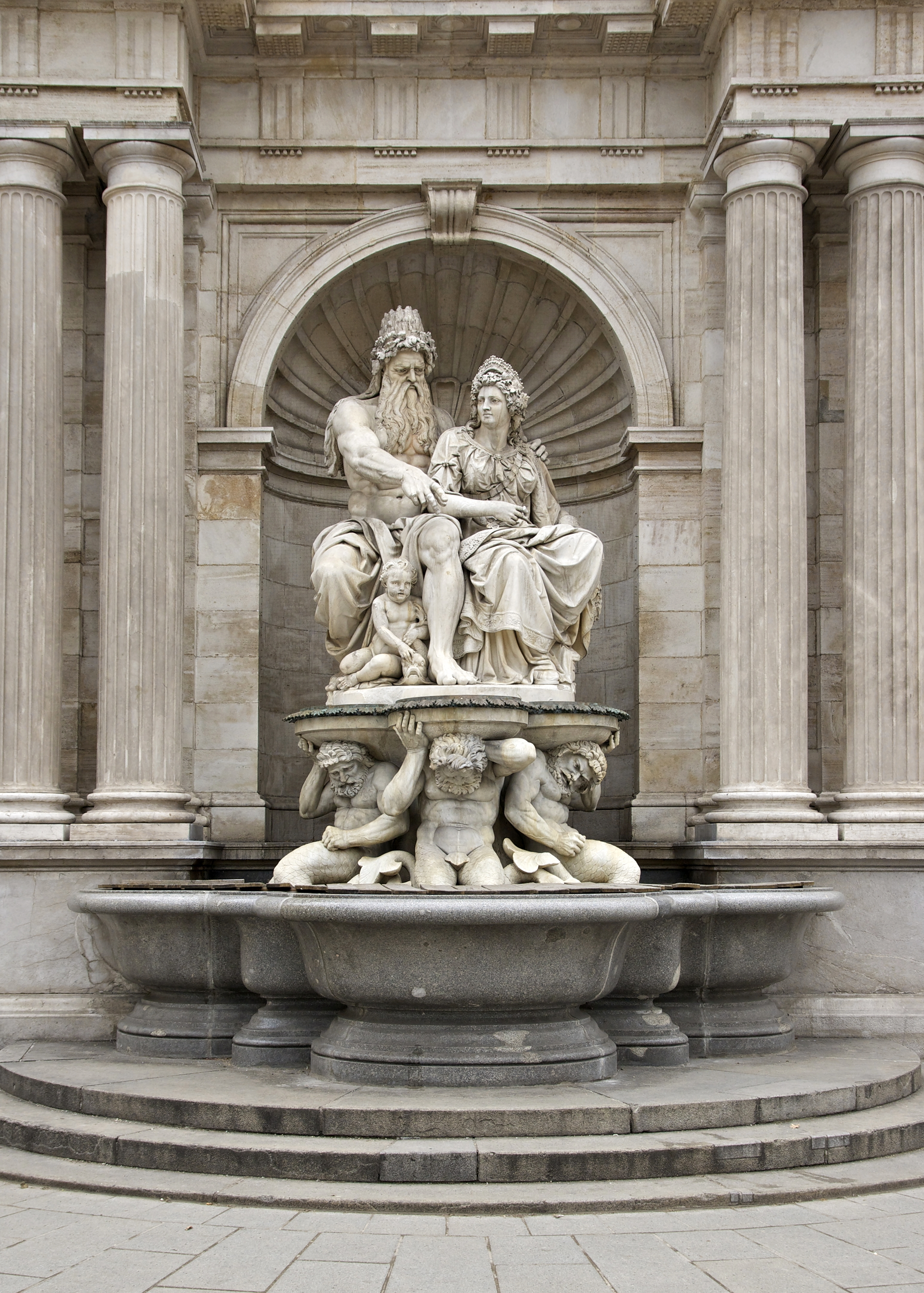 Albertinaplatz, "Albrechtsbrunnen" fountain, detail. It shows "Vindobona" (the city of Vienna) and "Danubius" (the Danube). By architect Moritz von Lohr, and sculptor Johann Meixner. Vienna, Austria.